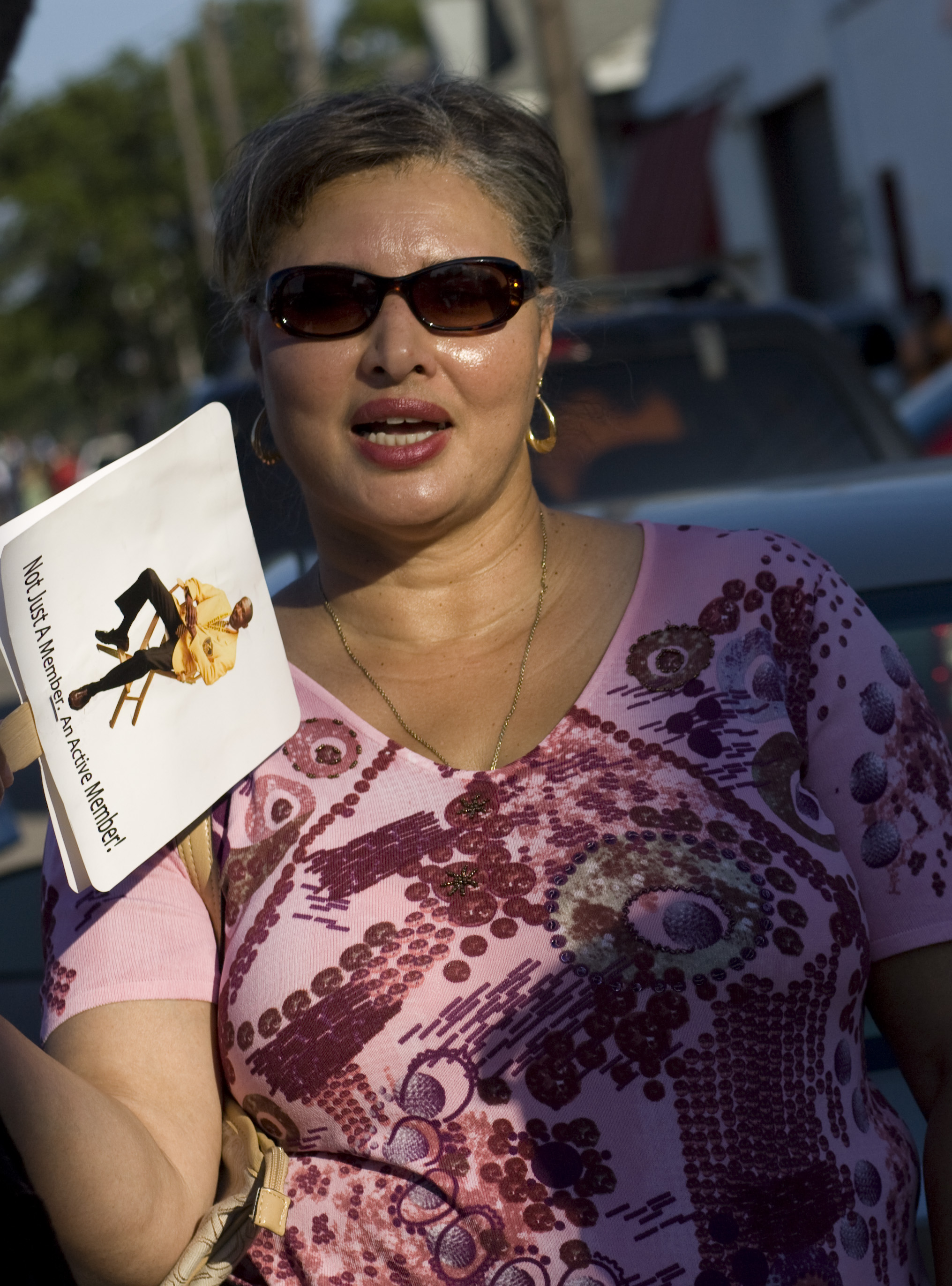 Renée Gill Pratt (former New Orleans City Council member), at the Downtown Mardi Gras Indians Super Sunday celebration.